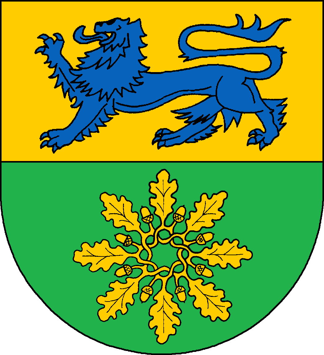 Coat of arms of the municipality Handewitt in Schleswig-Holstein, Germany.